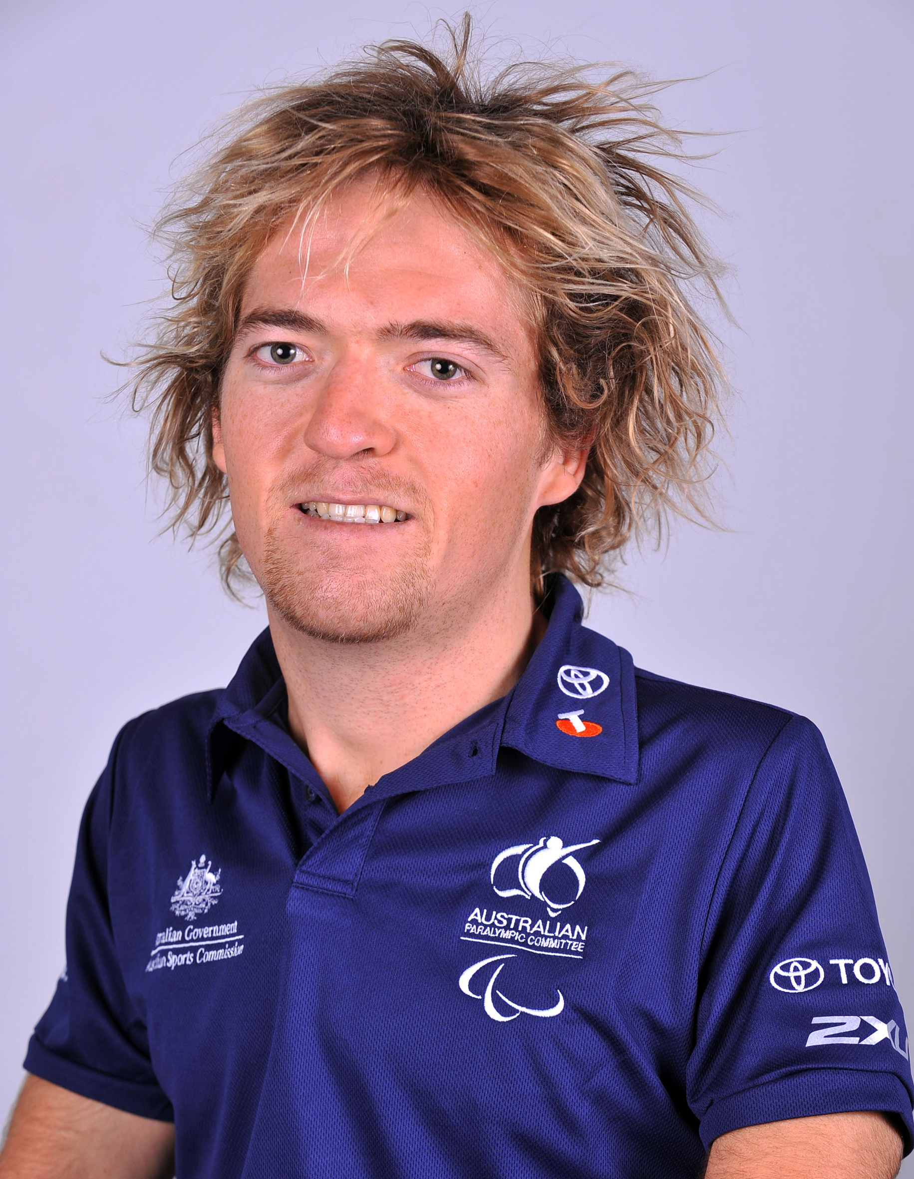 Portrait of Australian swimmer Grant Patterson, 2012 Australian Paralympic (shadow) Team athlete